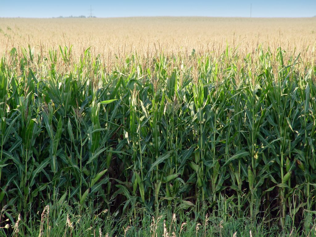 Corn growing, Minnesota, USA